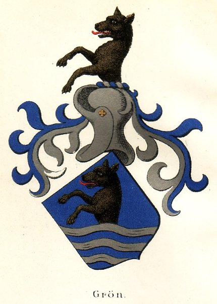 Coat of arms of the Grøn family